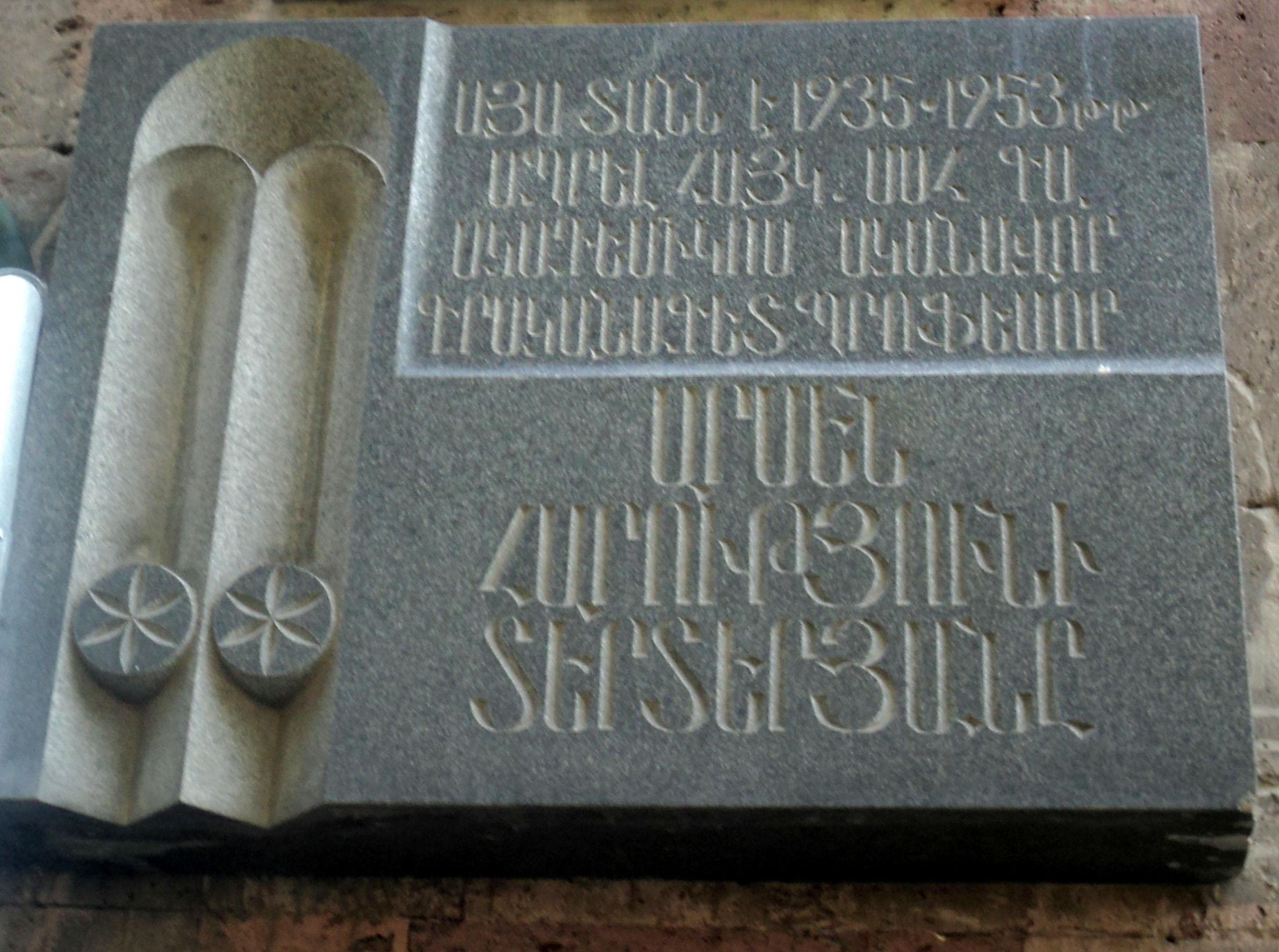 Արսեն Տերտերյանի հուշատախտակը Երևանում